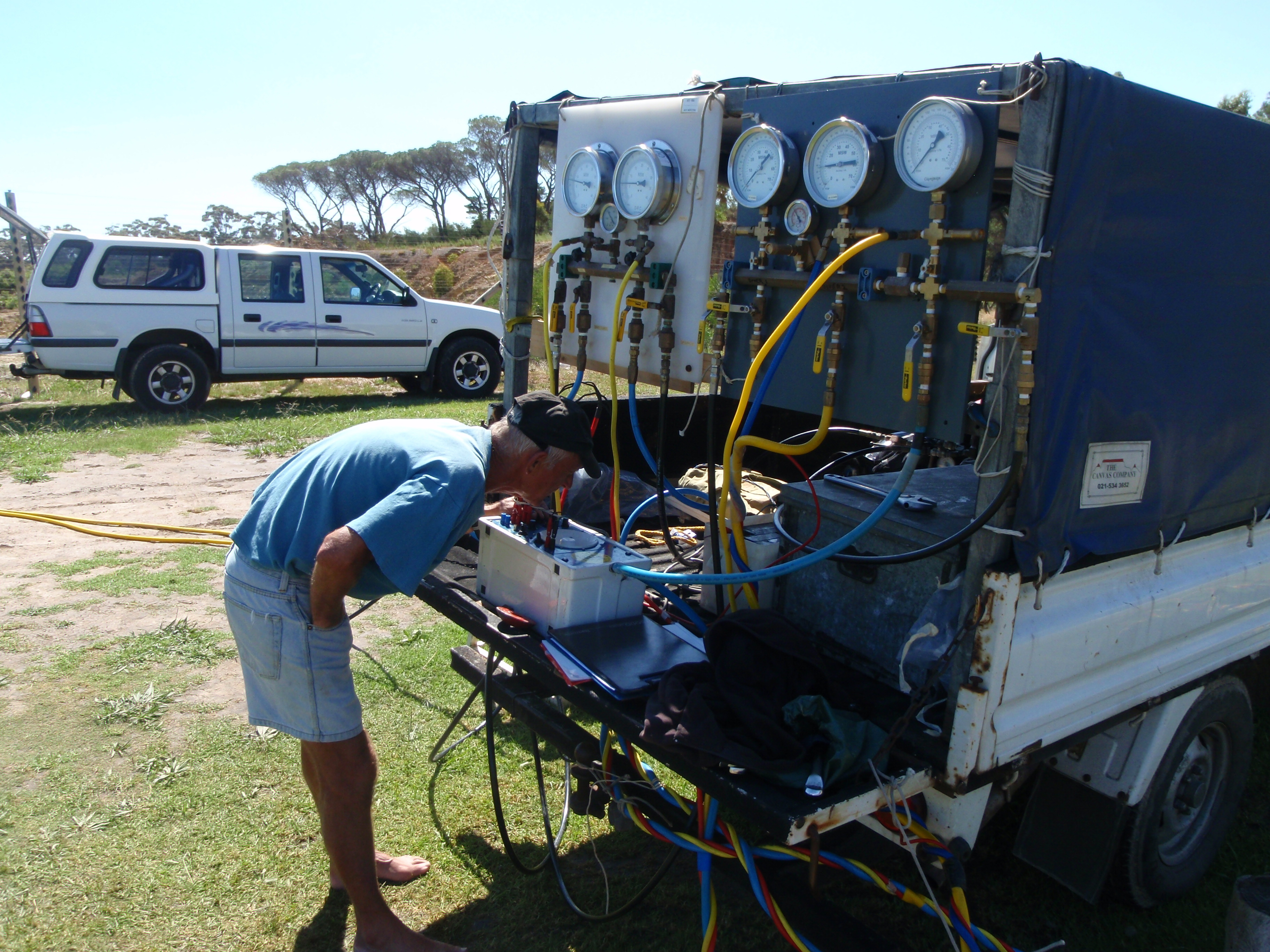 Two air panels and a cable communications control box supplying trainee surface supplied divers at a quarry.